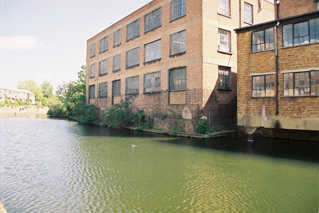 Industrial buildings, Cambridge Heath. Industrial buildings in Vyner Street backing onto the Regent's Canal